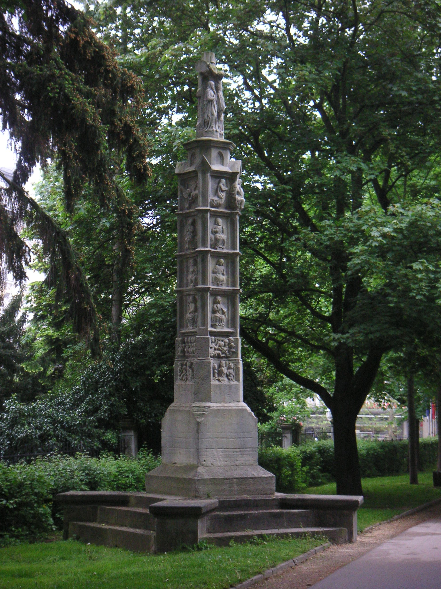 Regensburg, Gothic column, Petersweg